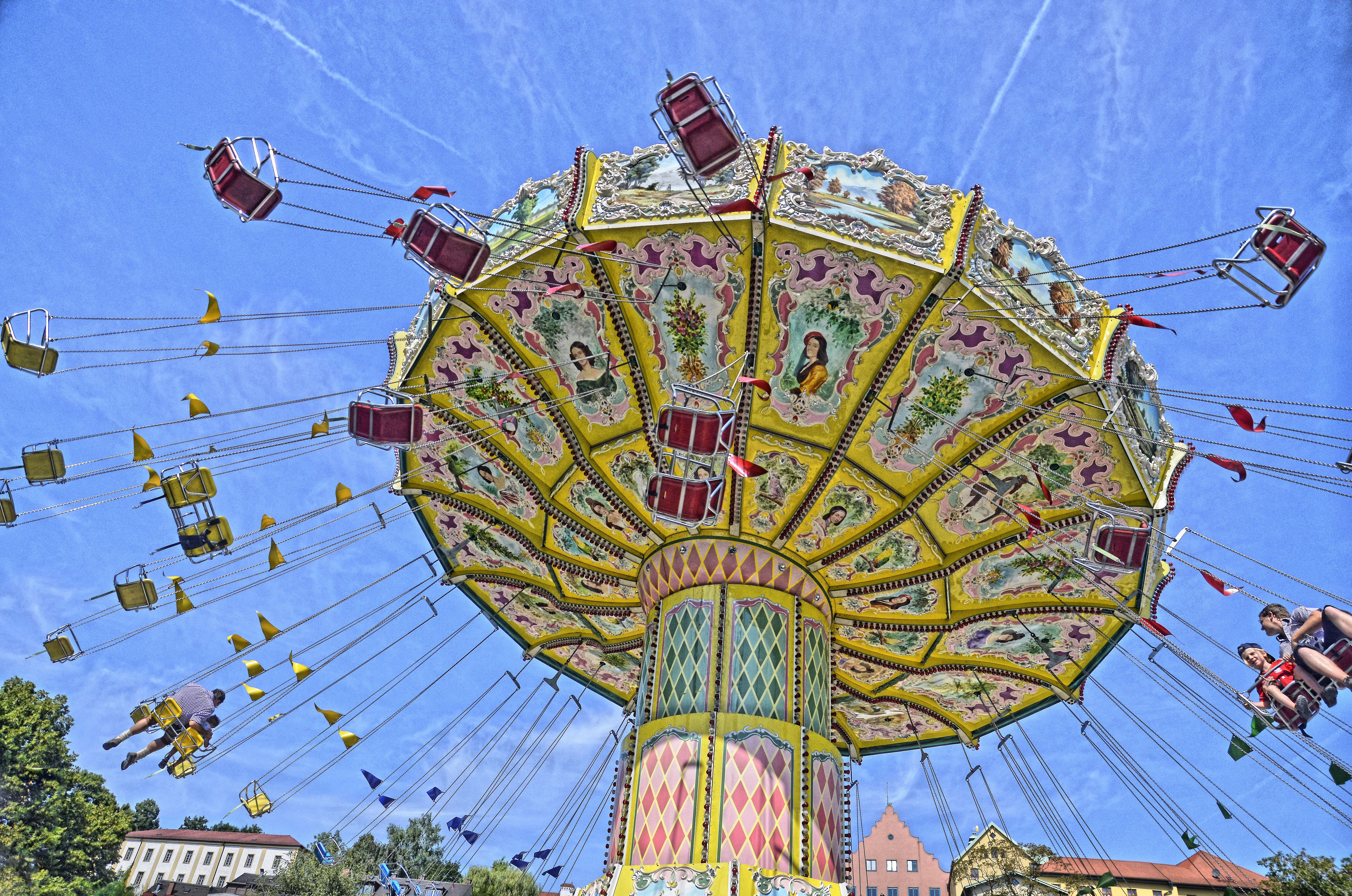 Carousel in Dachau